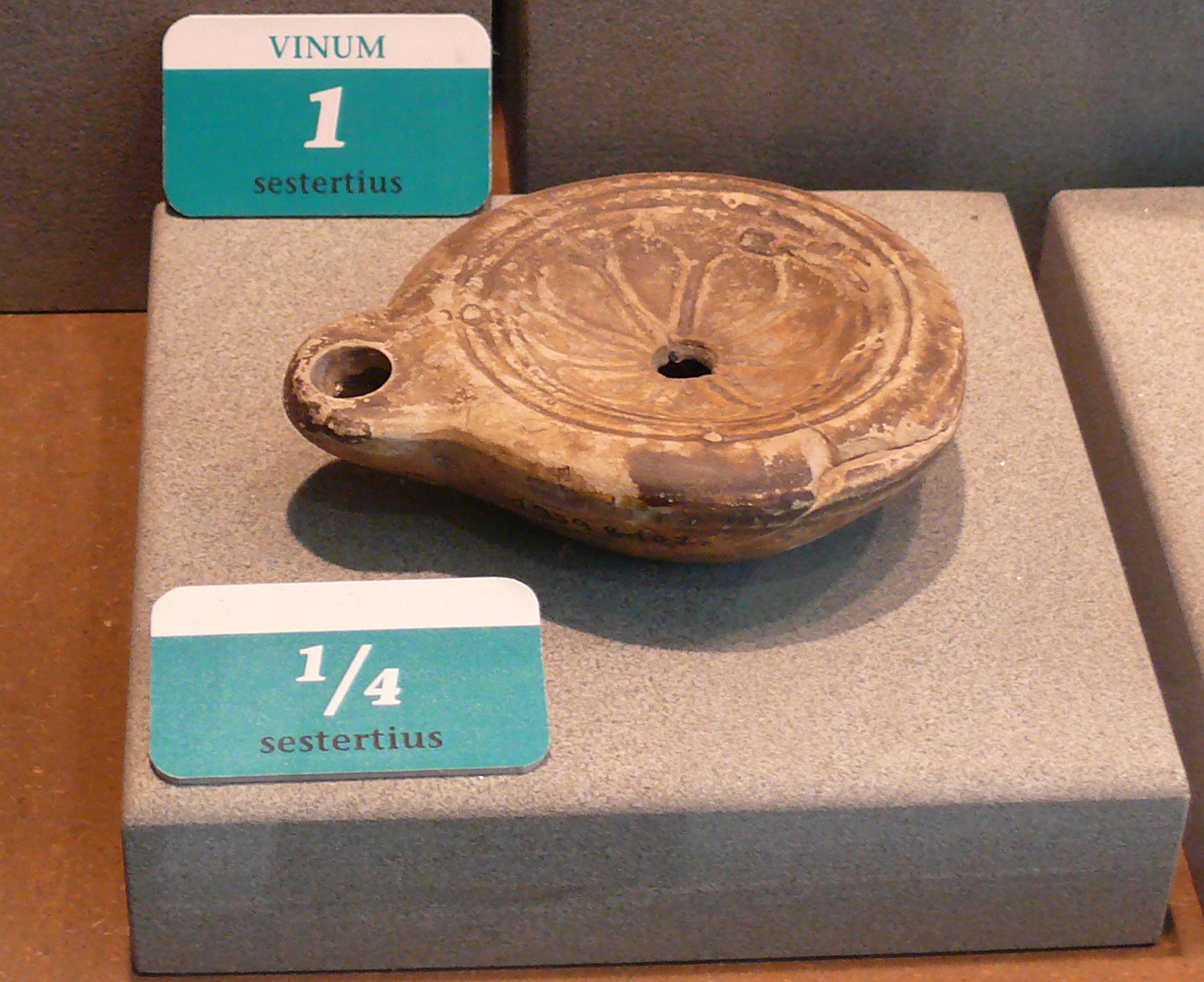 Roman oil lamp. From the collection of the Roman Museum at Augusta Raurica (Augst, Switzerland)